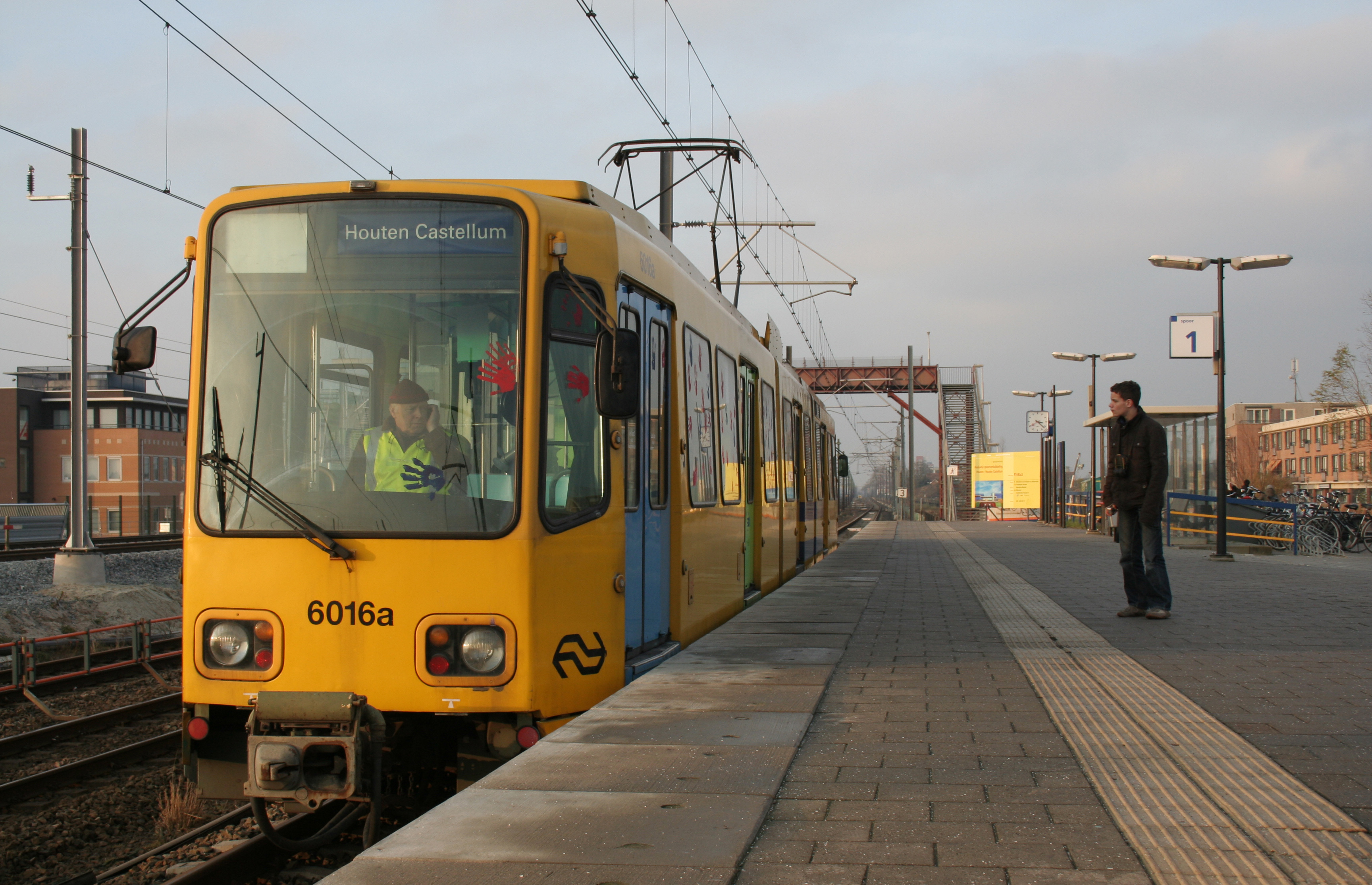 Last day of tram operation in Houten